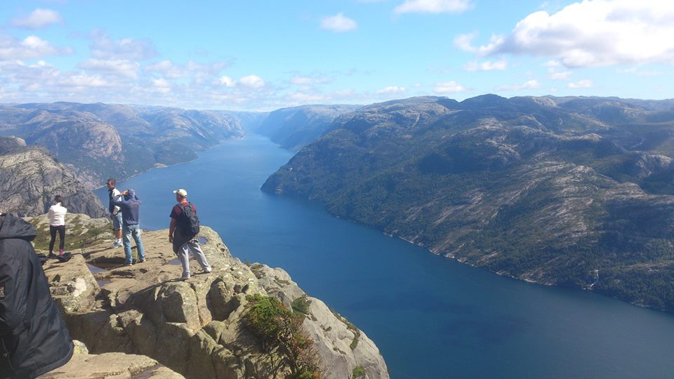 view from Preikestolen on Lysefjord